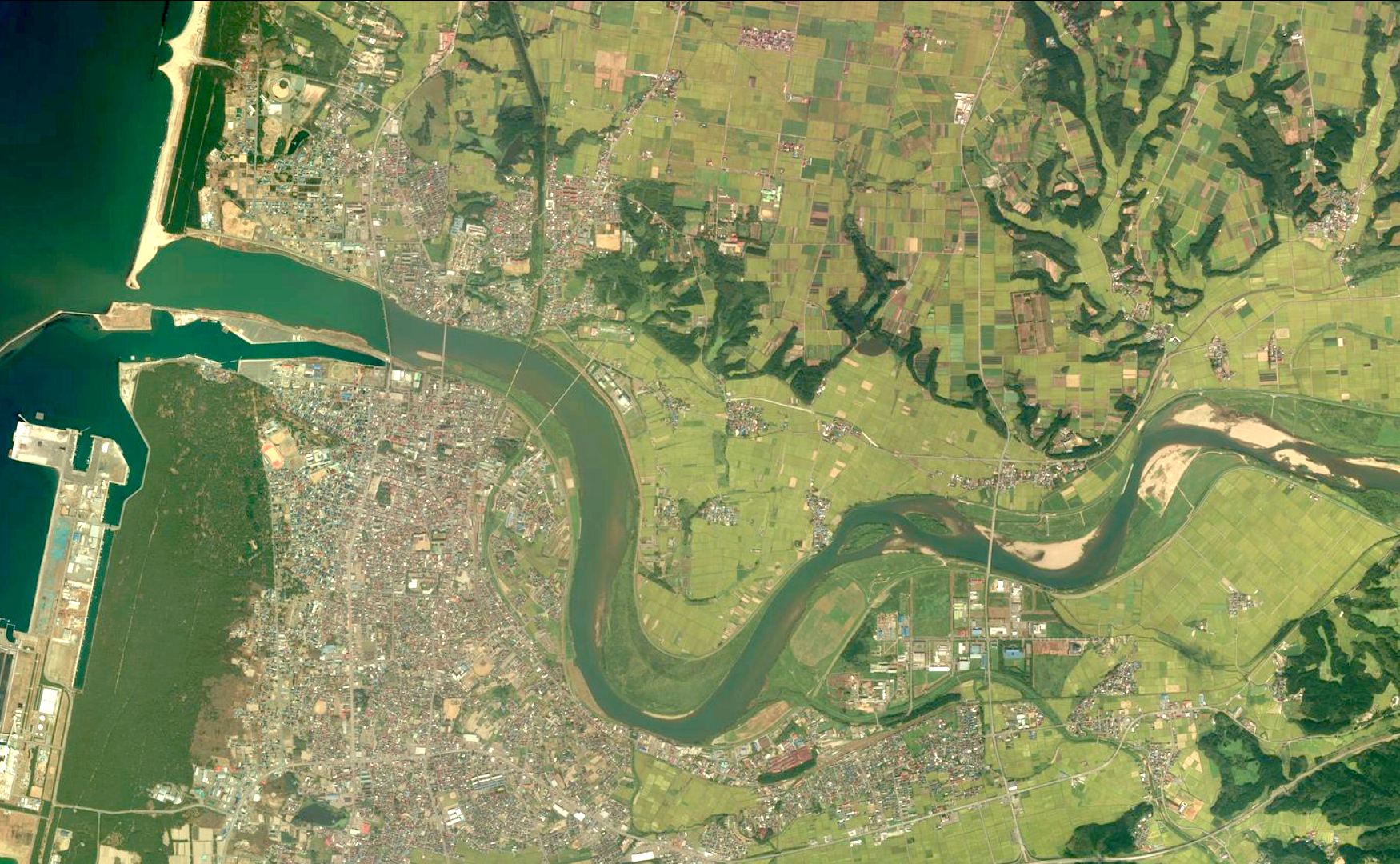 Japan, Noshiro: aerial view of the Yoneshiro river mouth (Akita prefecture).